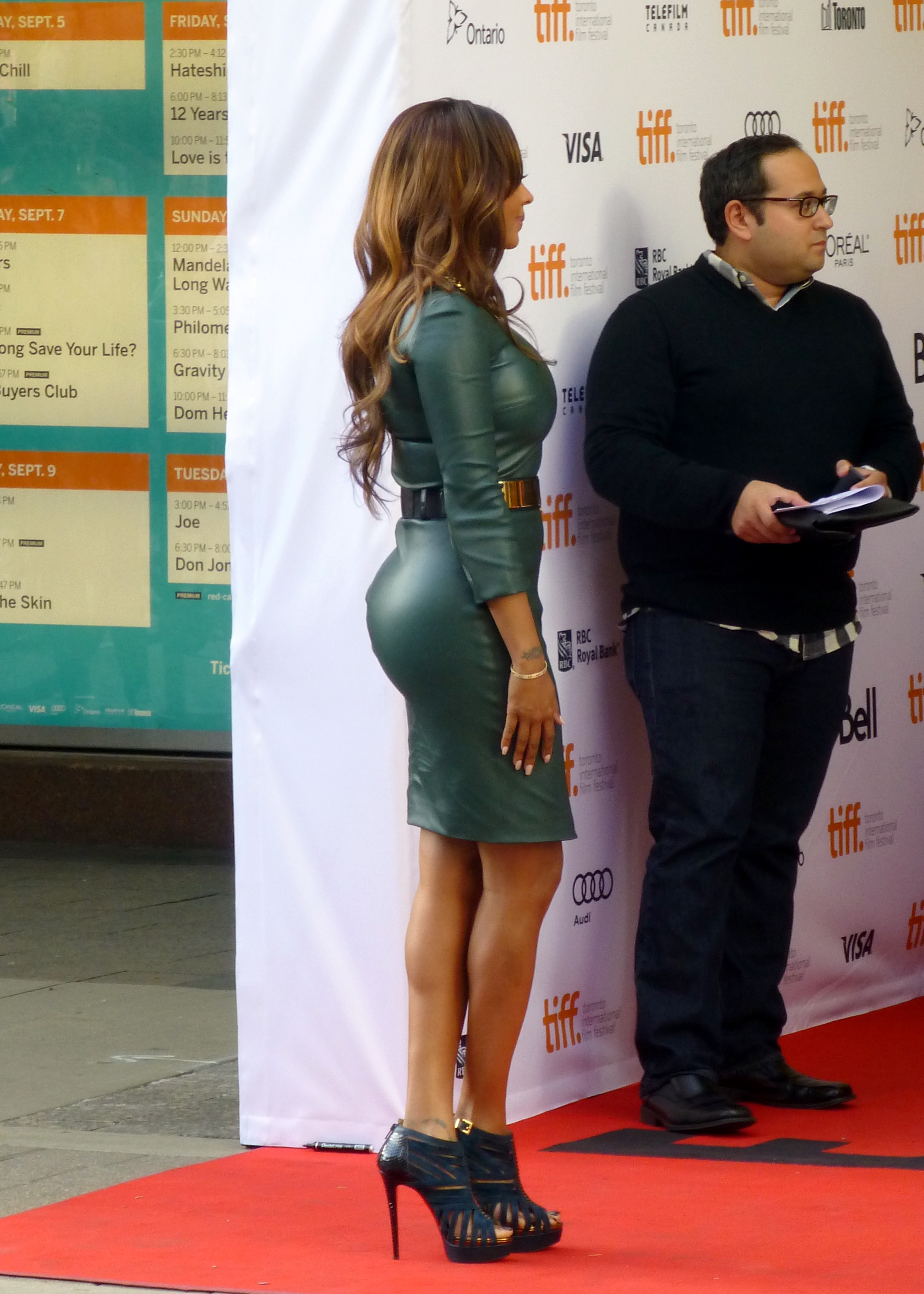 La La Anthony at the premiere of 12 Years a Slave, 2013 Toronto Film Festival